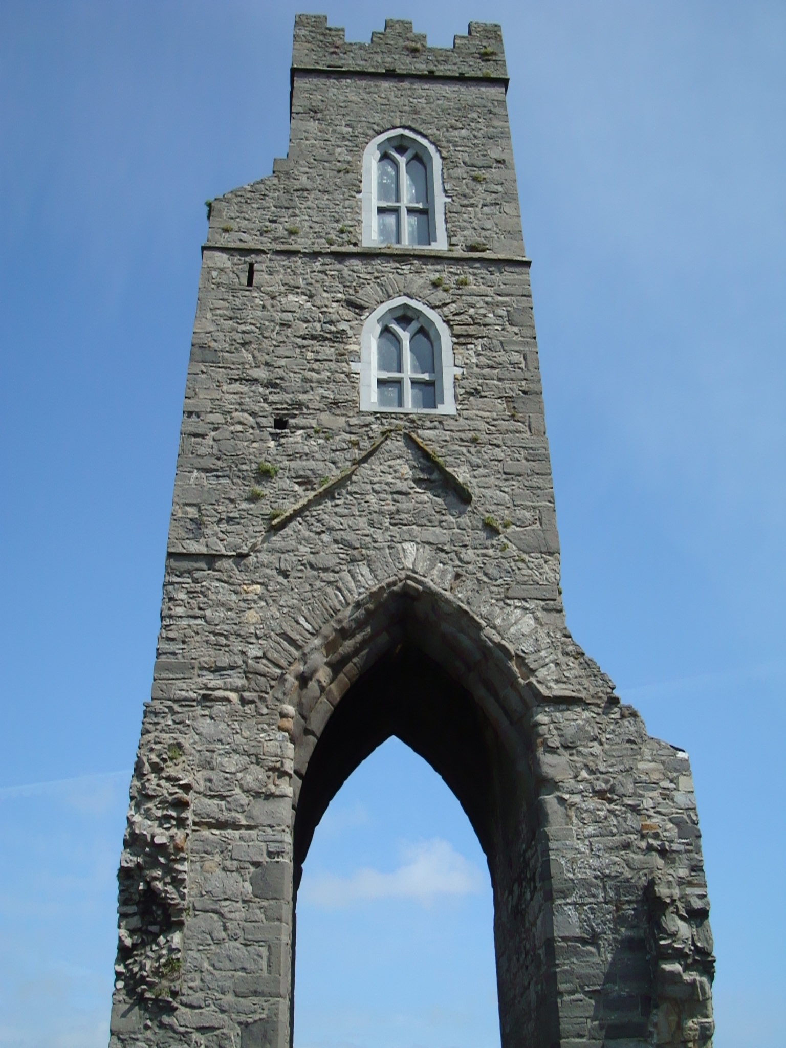 Photograph of the remains of St Mary Magdalene Friary, Drogheda, Co Louth, Republic of Ireland